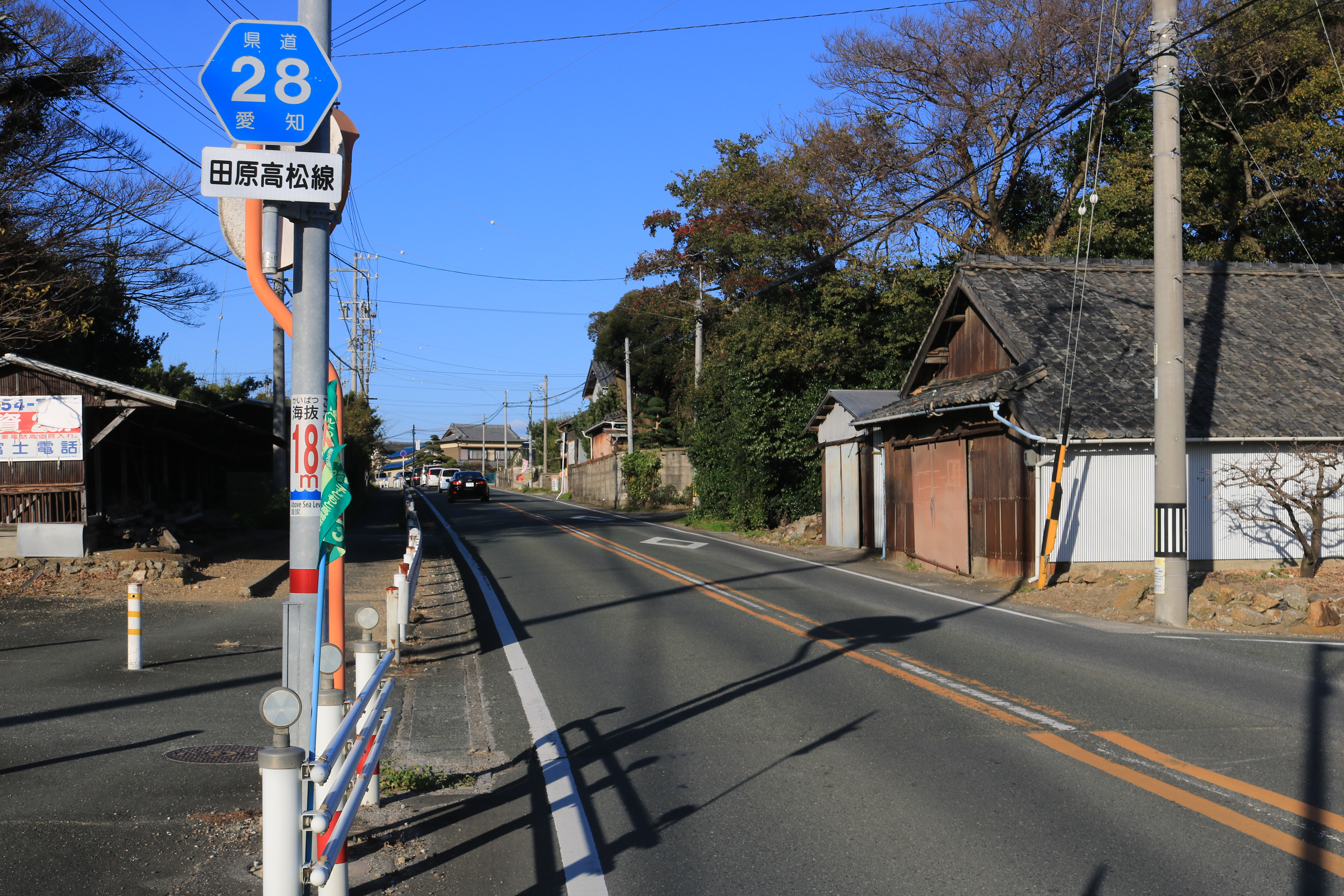 Aichi Prefectural Road Route 28 in Tahara, Aichi prefecture, Japan.